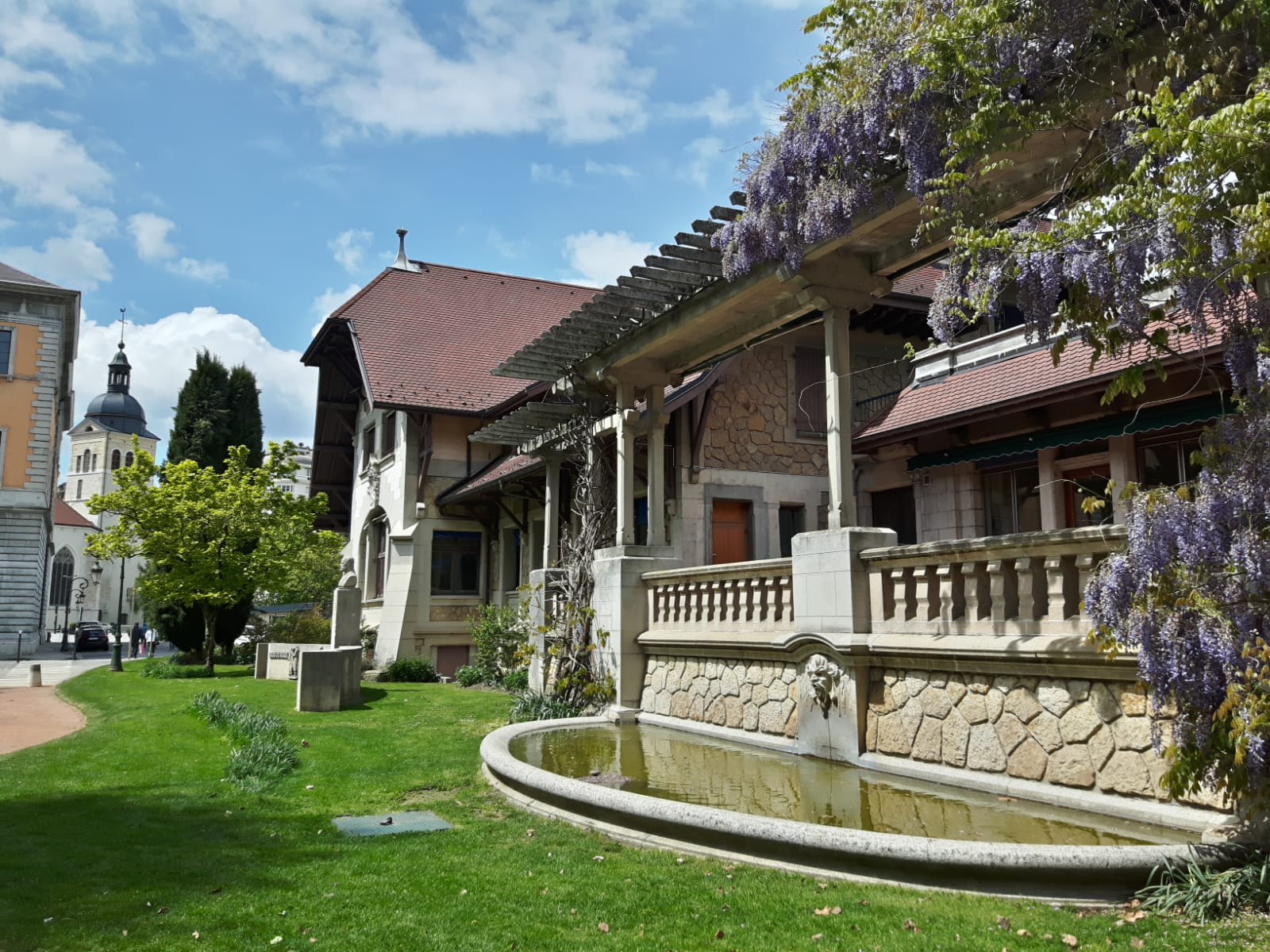 Maison de l'Enfance - Annecy